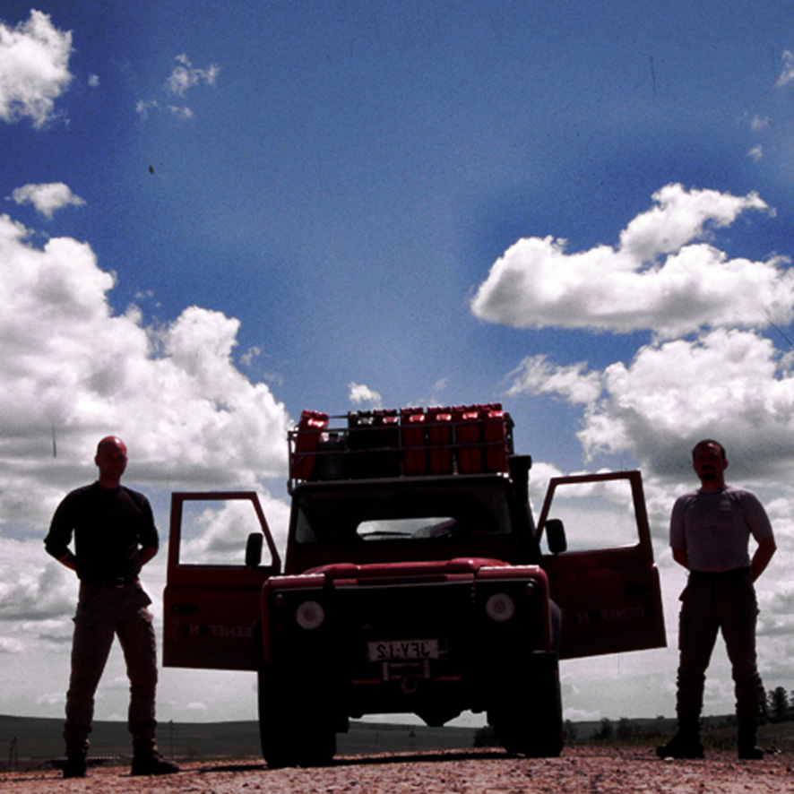 Finnish architects and artists Casagrande & Rintala somewhere in Siberia during the Dallas-Kalevala art journey.